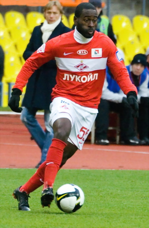 Quincy James Owusu-Abeyie